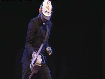 Juggler and Guinness world record holder Juha Kurvinen with a chain saw.